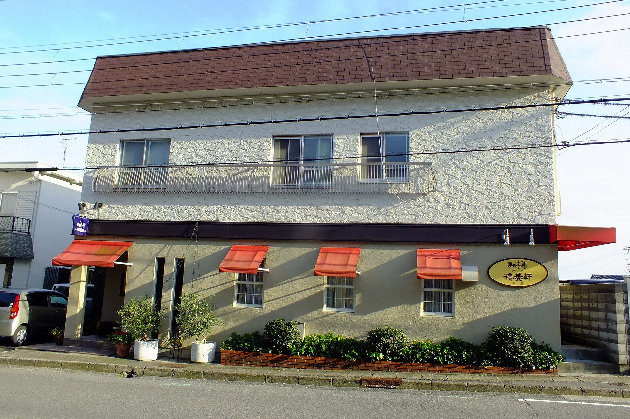 Kobe-Seiyo-ken 神戸精養軒外観